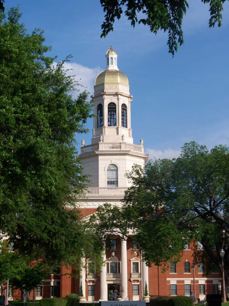 This building houses the university president's office.